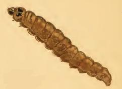 Stainton’s Natural History of the Tineina (1855–1873): Mompha propinquella